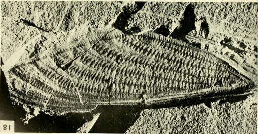 Mesogereon superbum Source: R. J. Tillyard. 1921. Mesozoic Insects of Queensland. No. 8 Hemiptera Homoptera (contd) The genus Mesogereon; with a discussion of its relationship with the Jurassic Palaeontinidae. The Proceedings of the Linnean Society of New South Wales 46:270-284